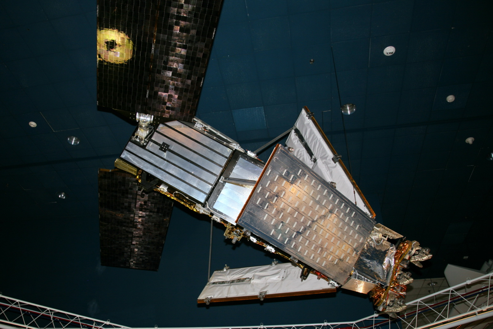 Iridium Satellite in the National Air and Space Museum, Washington, D.C., USA. As of late 2006, the system still is in operation. Designed primarily for commercial communications, the U.S. government has used Iridium extensively in the conflicts in Afghanistan and Iraq. This artifact was the first prototype satellite Motorola built for Iridium, and it includes engineering and flight components. The company donated it to the Museum in 1998.